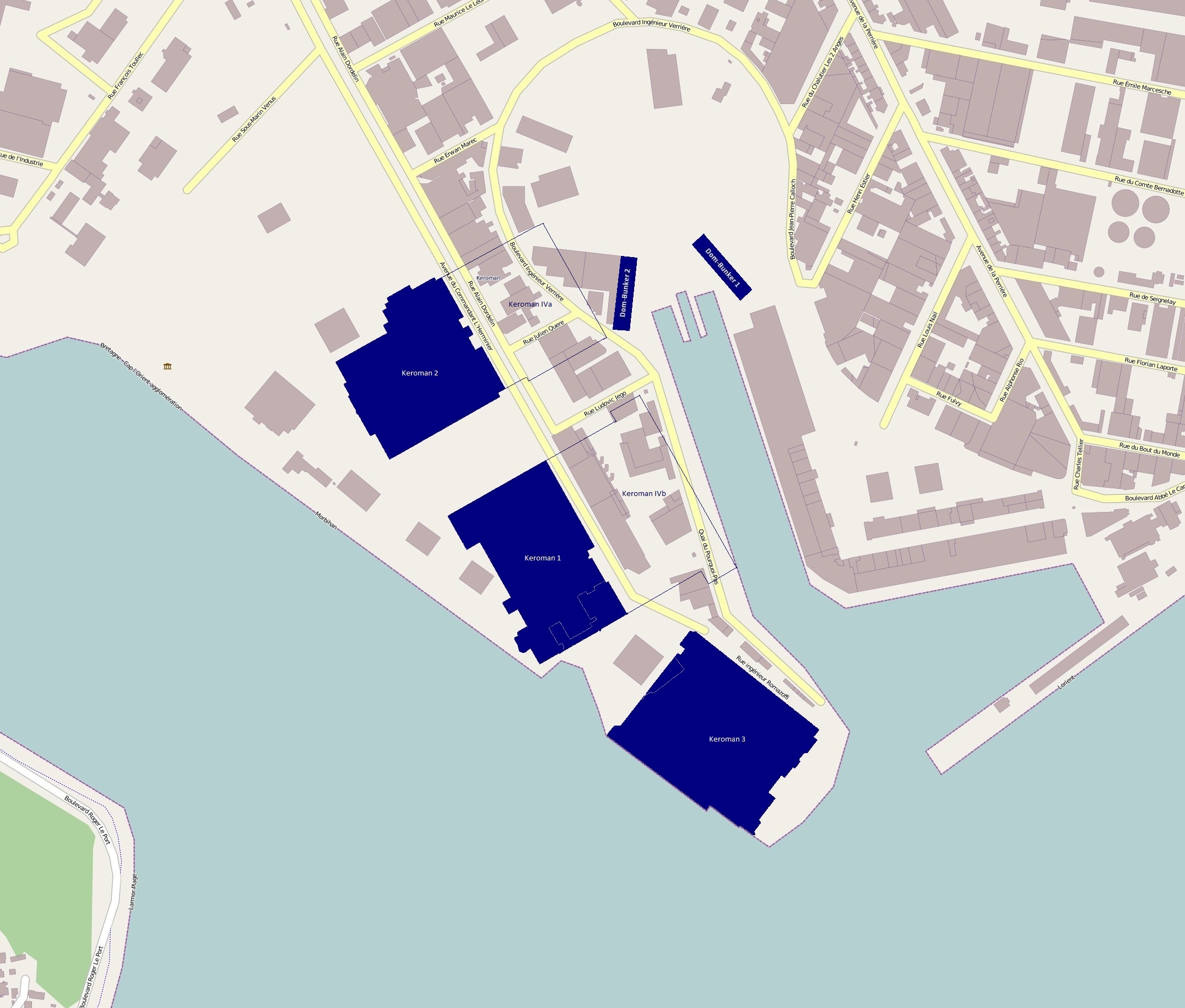 Lorient Submarines base, France